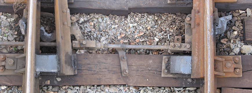 hook-shaped locking of the switch blades